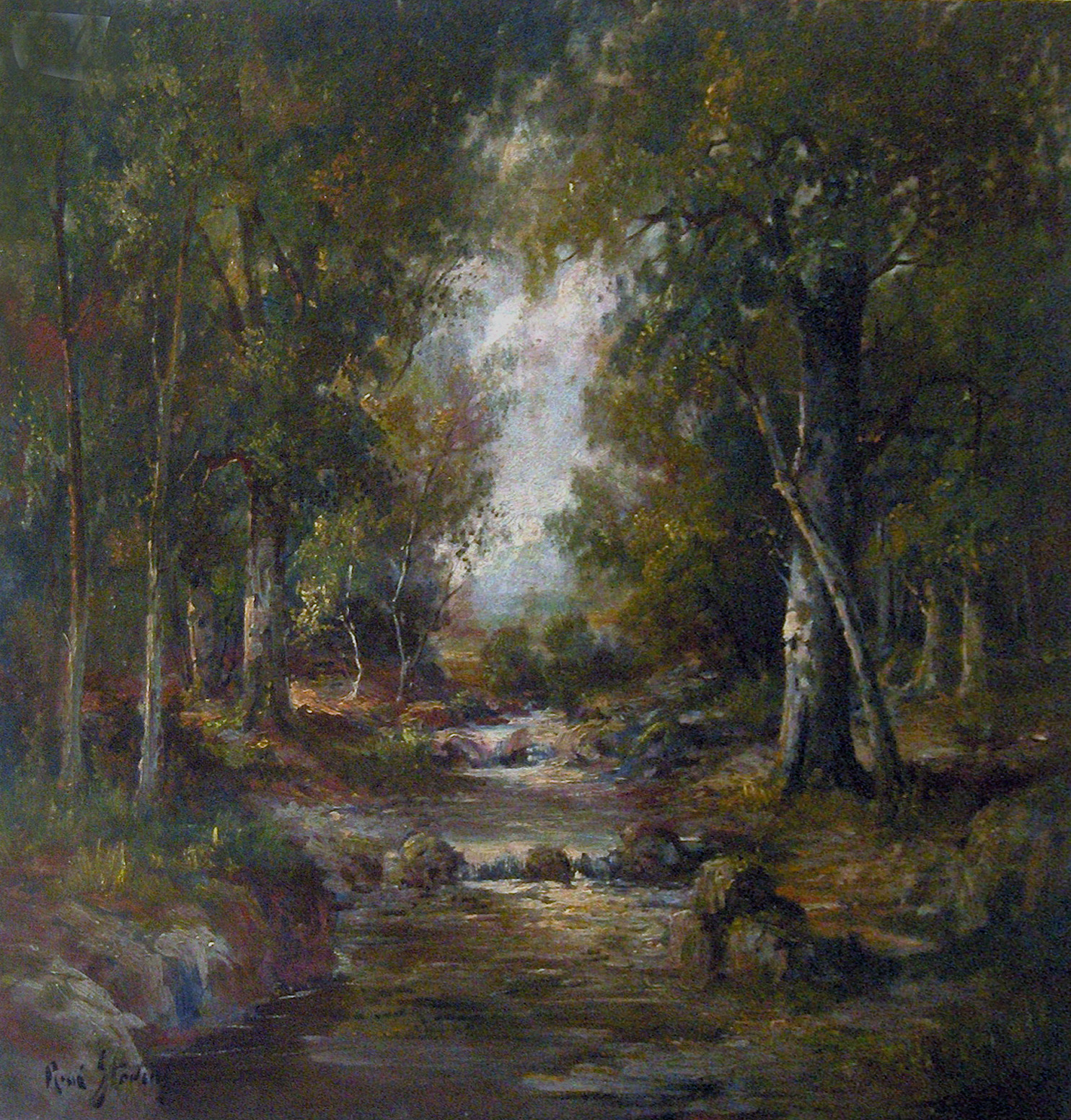 "River in a forest", oil painting on canvas by René Stevens (1858-1937); private collection